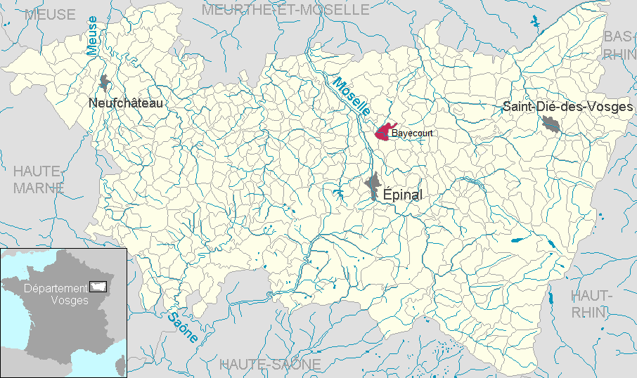 Bayecourt in the department of Vosges, Lorraine, France